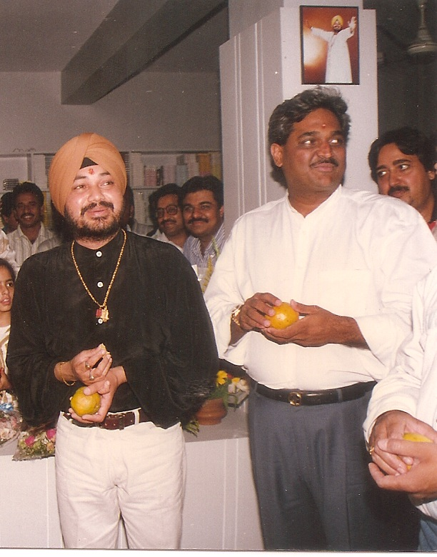 Shashi Gopal along with Daler Mehndi at the launch of a Bangalore music store